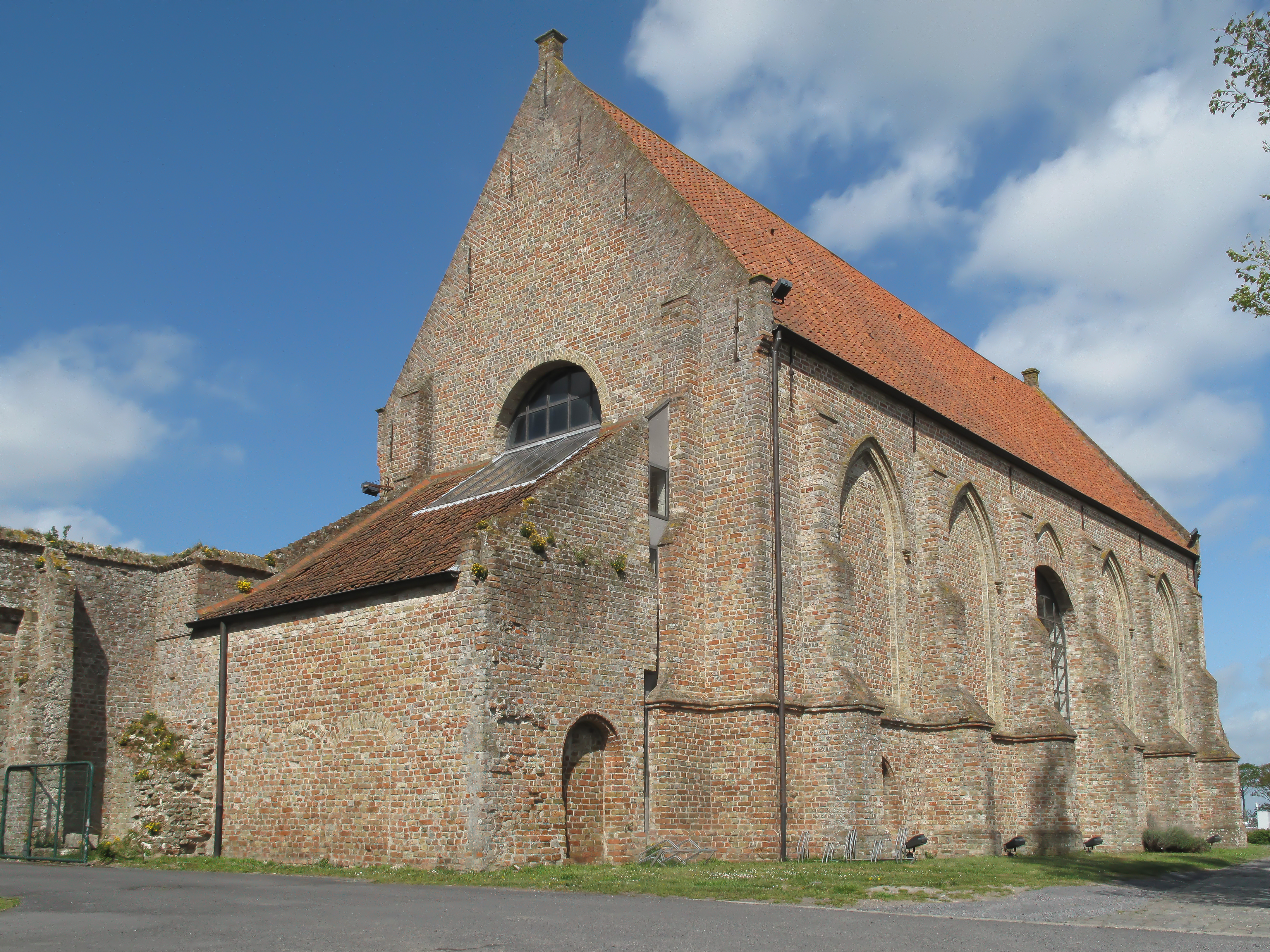 Ten Bogaerde, abbey